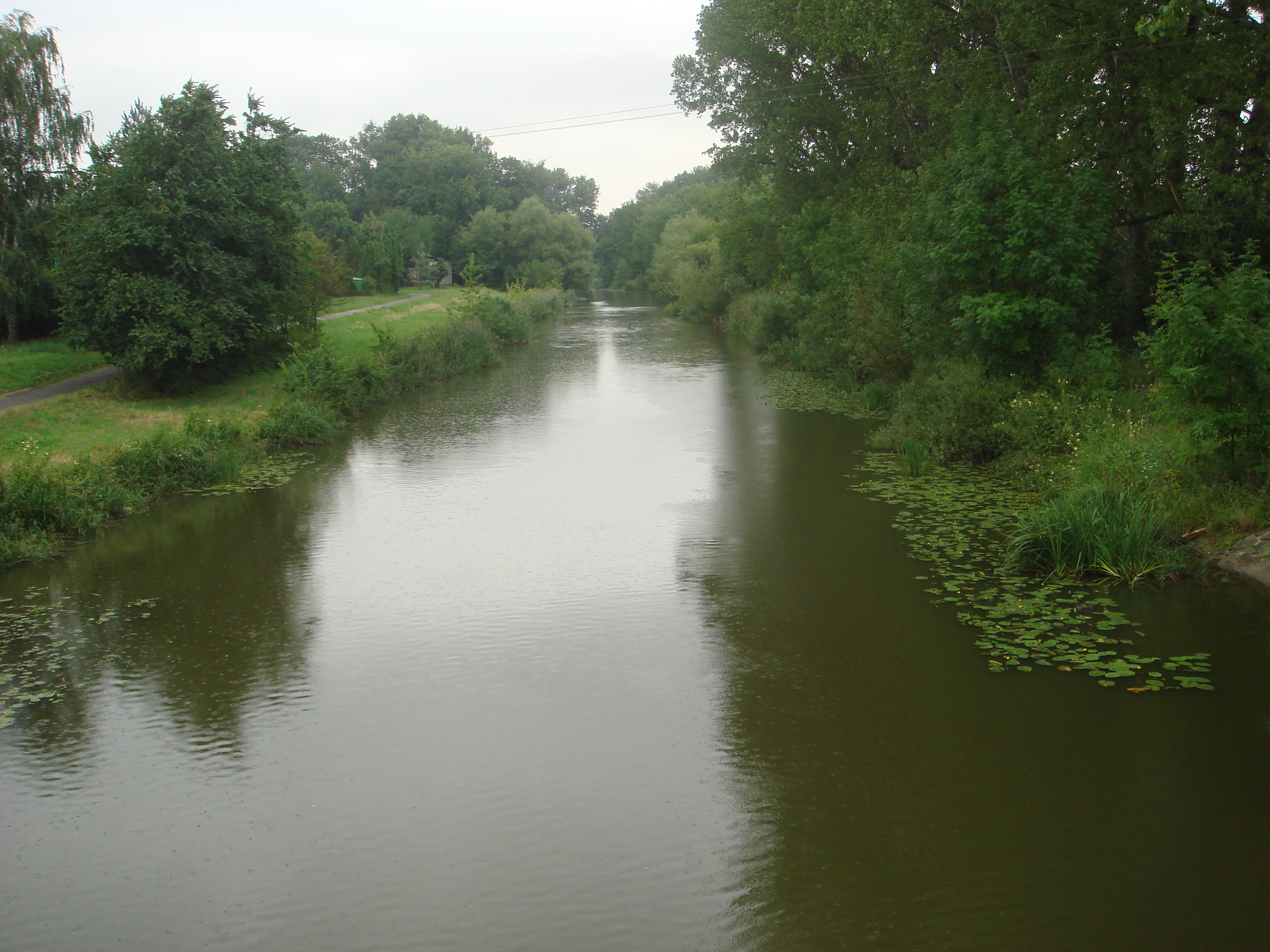 River Cidlina in Libice nad Cidlinou (Central Bohemian Region, Czechia).